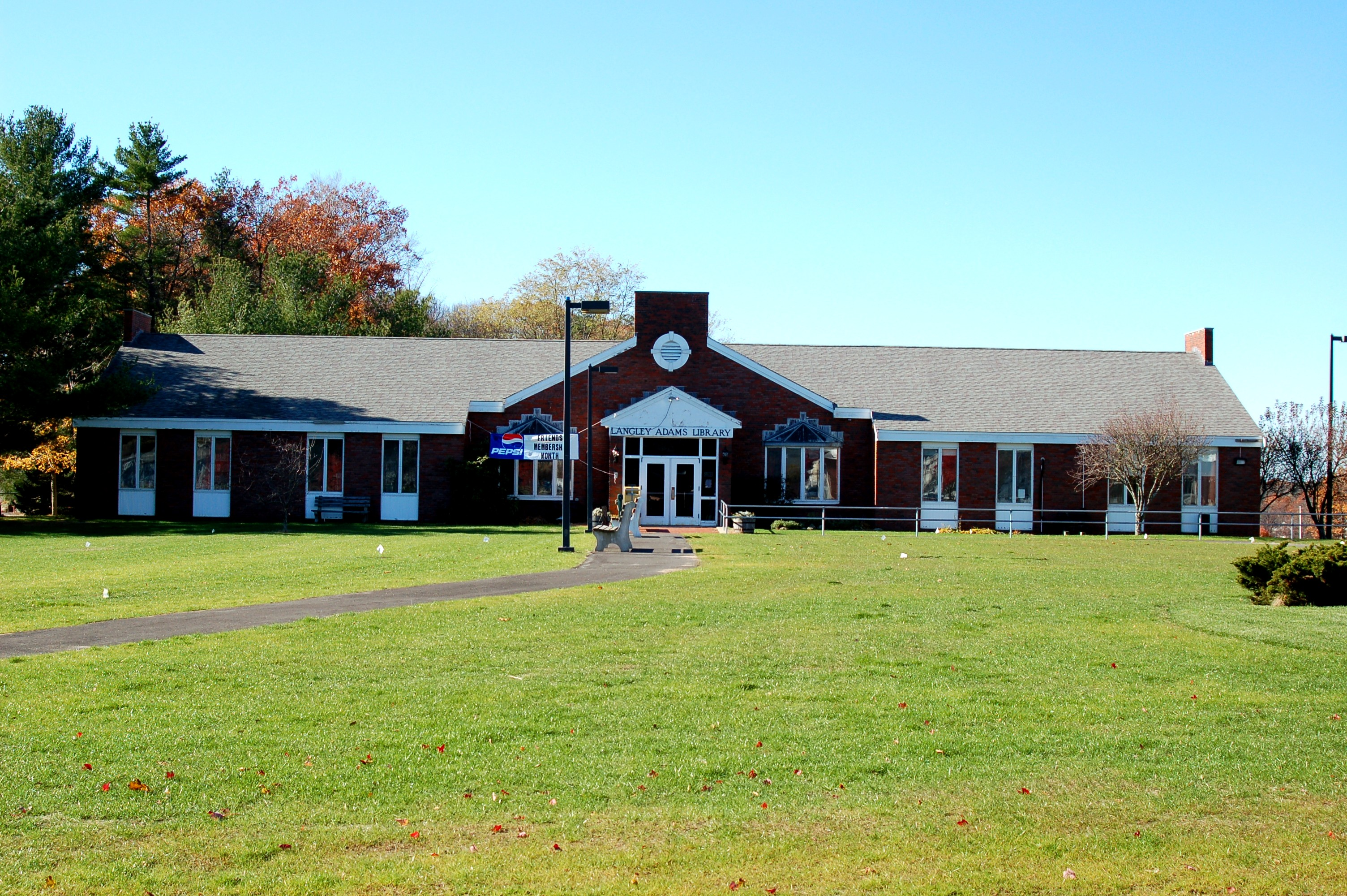 Groveland Massachusetts Library. Photo taken by Author, Richard B. Johnson.